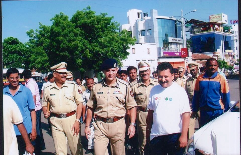 Qayyum Inamdar with Shaheed Ashok Kamte IPS and Dr. Prabhakar Bhudhwant IPS at marathon race event organized by Solapur District Chemist & Druggist Association.